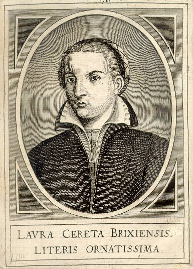 postum Portrait of Laura Cereta from 1640